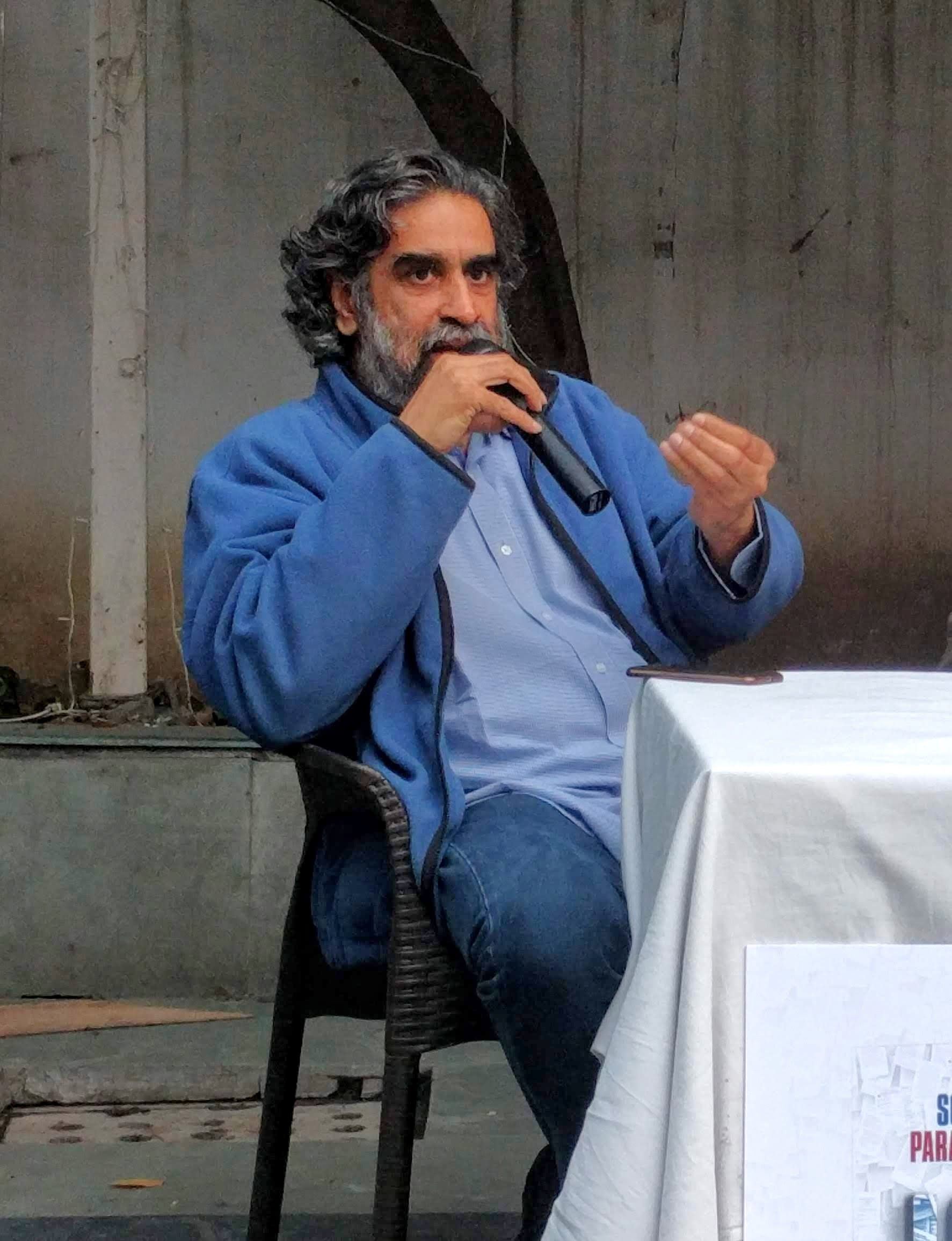 Hartosh Singh Bal at Press Club of India during the book launch of "Loose Pages: Court Cases That Could Have Shaken India".